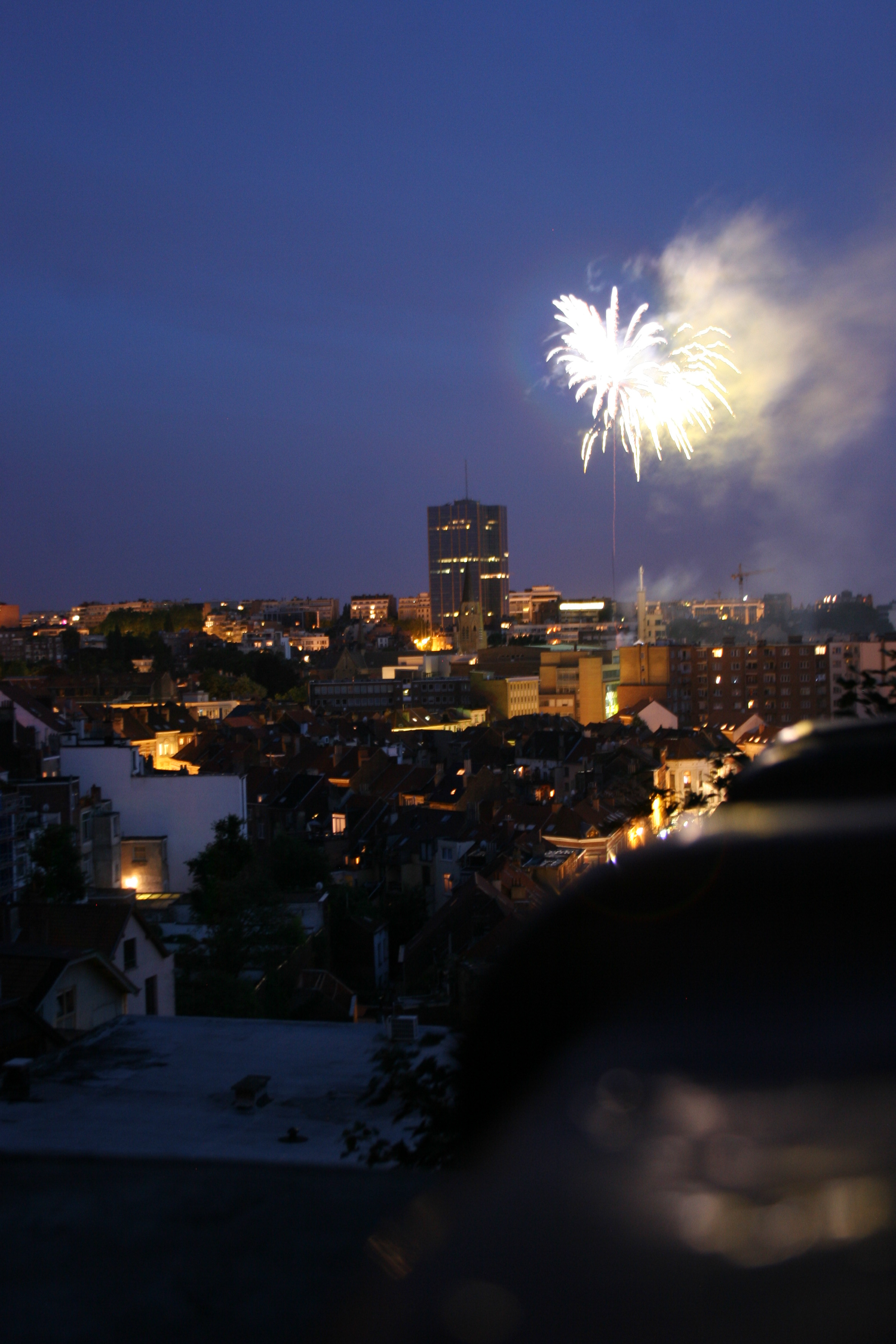 A fireworks on Flagey square